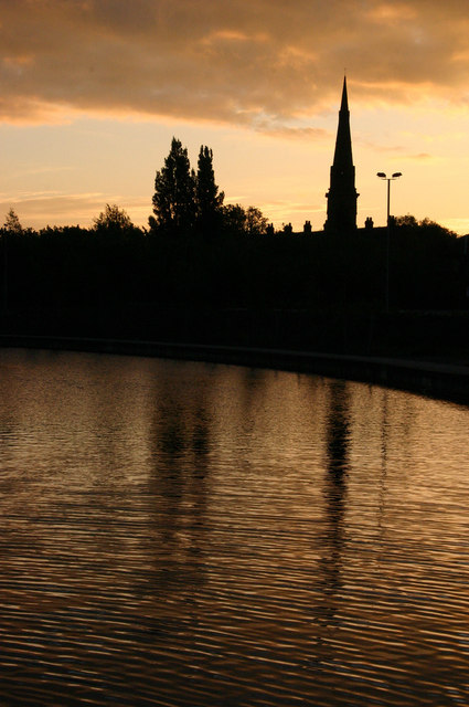 Sunrise over Failsworth, in Greater Manchester, England. The steeple is of St John the Evangelist's parish church. The waters are that of the Rochdale Canal.